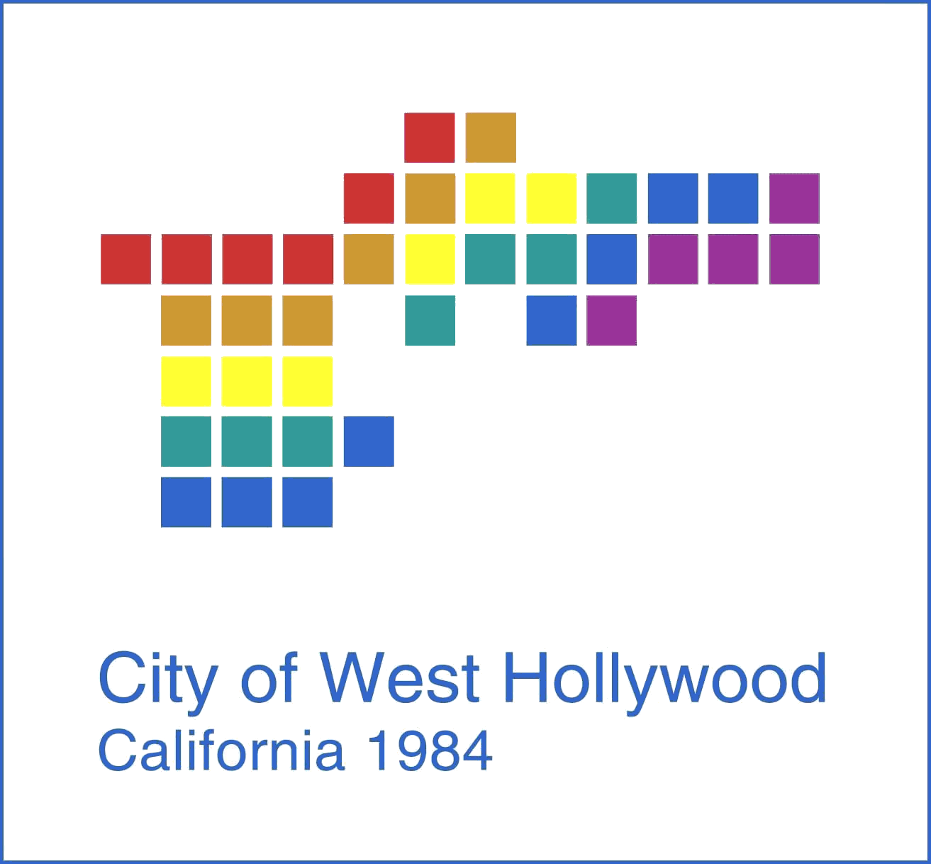 The seal of the city of West Hollywood, California.